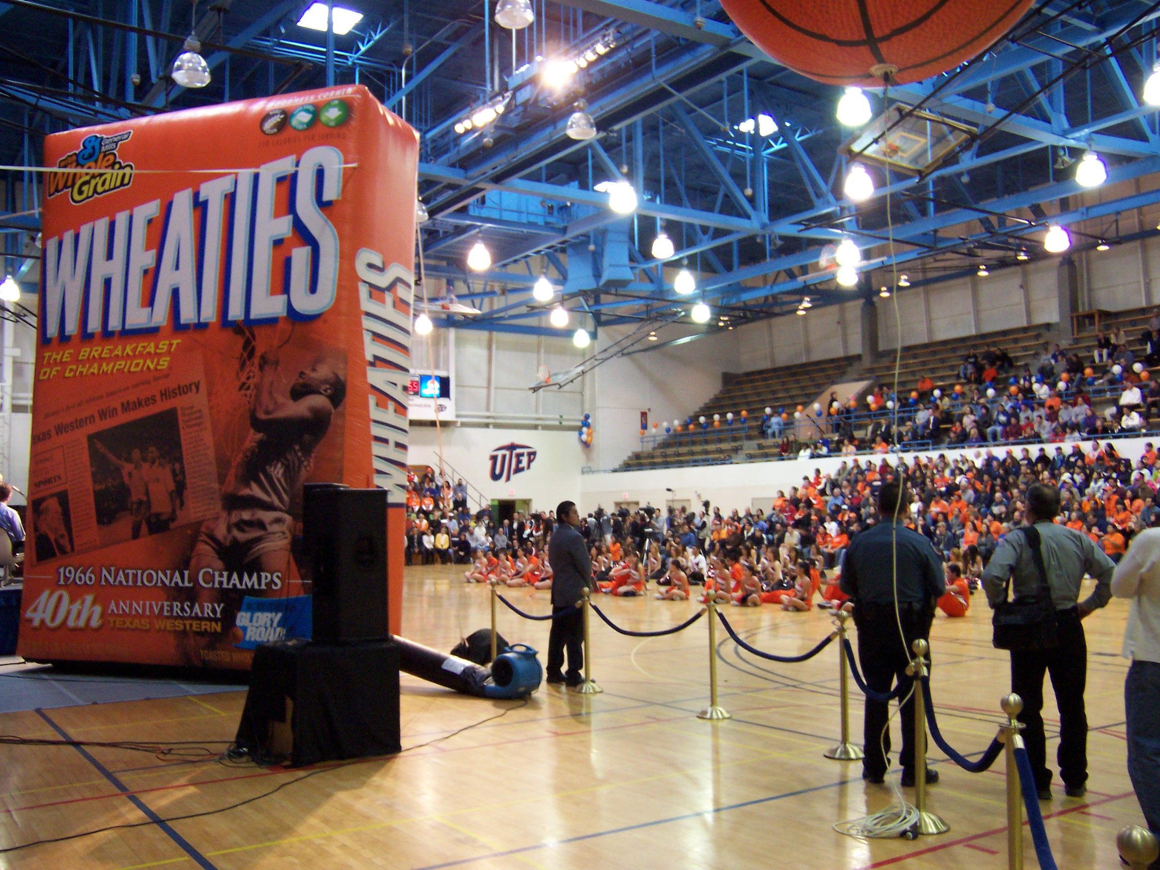 UTEP cheerleaders leading the festivities for the renaming of Glory Road on the campus. Category:Images of Texas